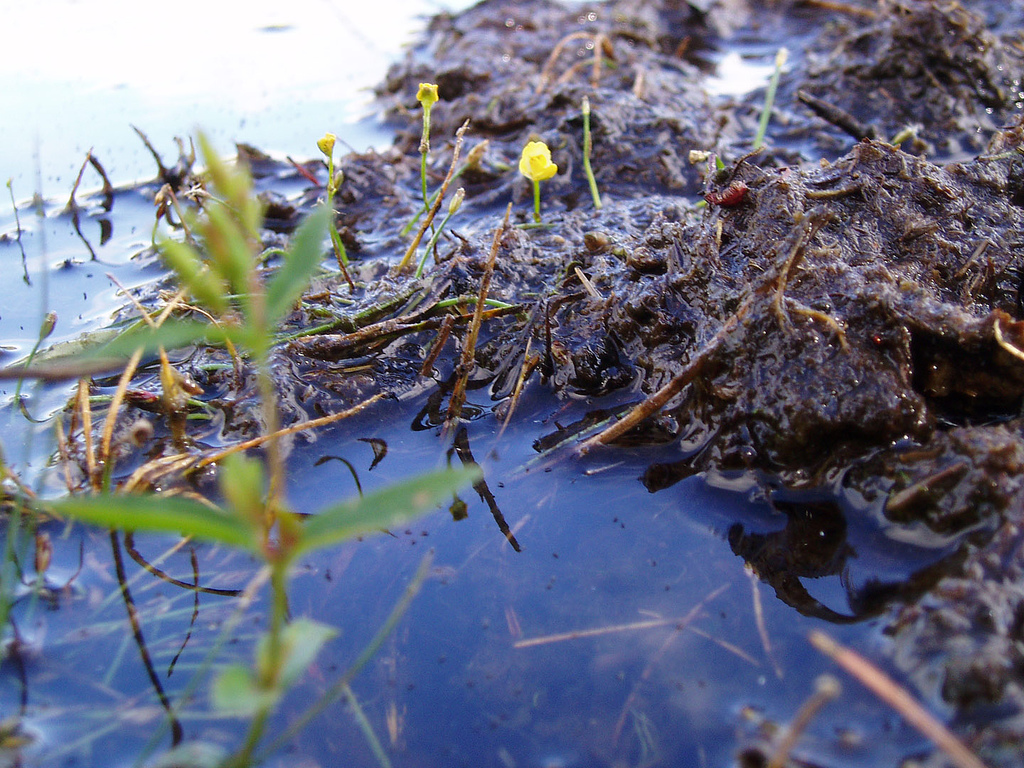 Utricularia spec. (needs determination, if possible), somewhere in a bog in Wisconsin, USA. – "A neat little flower sprouts up from the bogslop. It would seem that this is a greater bladderwort, Utricularia vulgaris. "